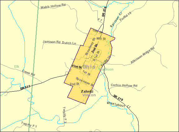 Map of Zaleski, a village in Vinton County, Ohio, United States, with its boundaries at the time of the 2000 census.